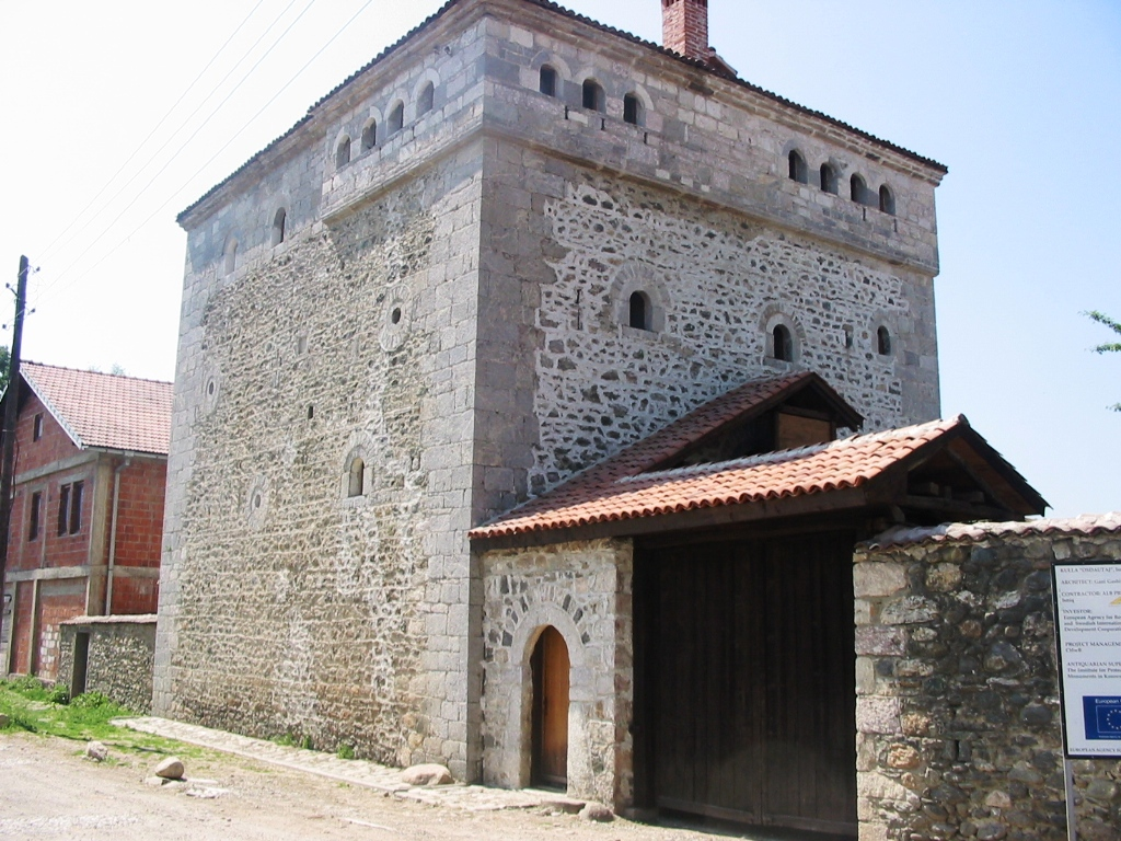 Kulla (Tower) Osdautaj in Isniq (Kosovo) is one of the rare four-flour kulla that is still in good condition. Built from stone belongs to the type kullas typical for Dukagjini region. The perimeterwall is approximately 80 cm. Interior parish is rich with ornate wood. The last conservation works are carried in 2002 out by the Cultural Heritage without Borders